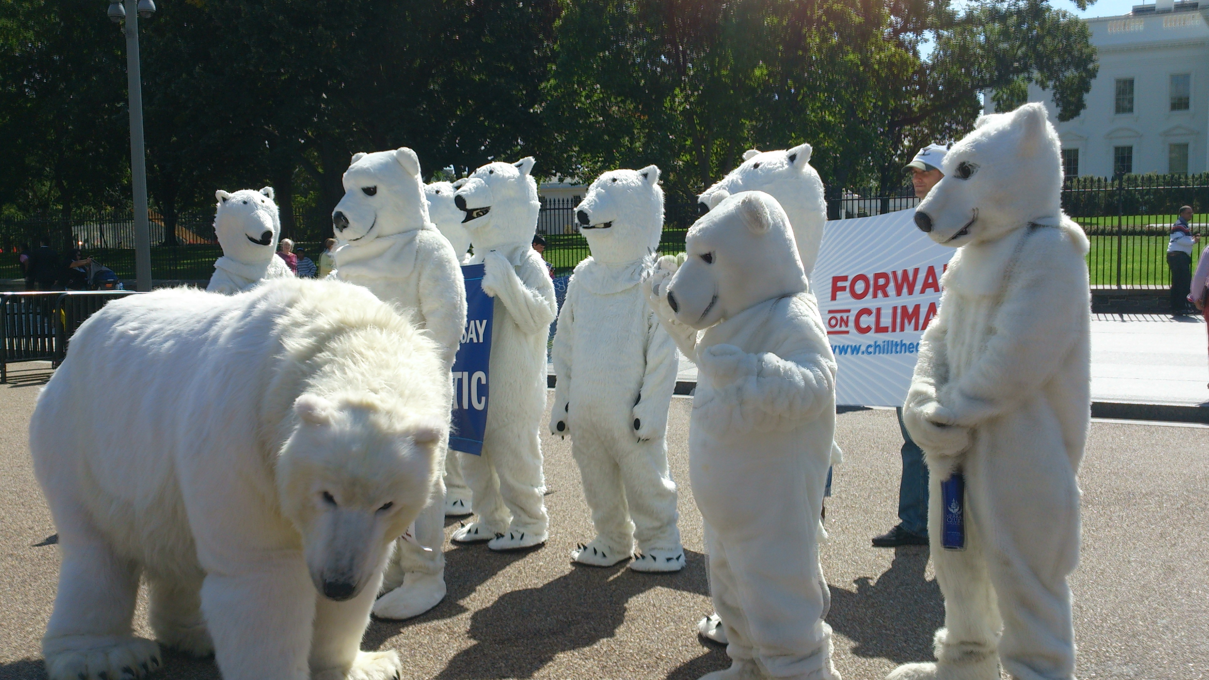 They were all sweating, but I still never quite understood how two people fit into the rather realistic bear in front.